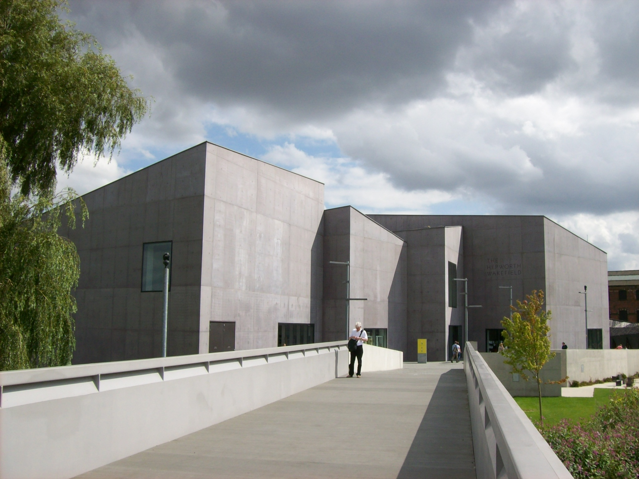 The Hepworth Wakefield